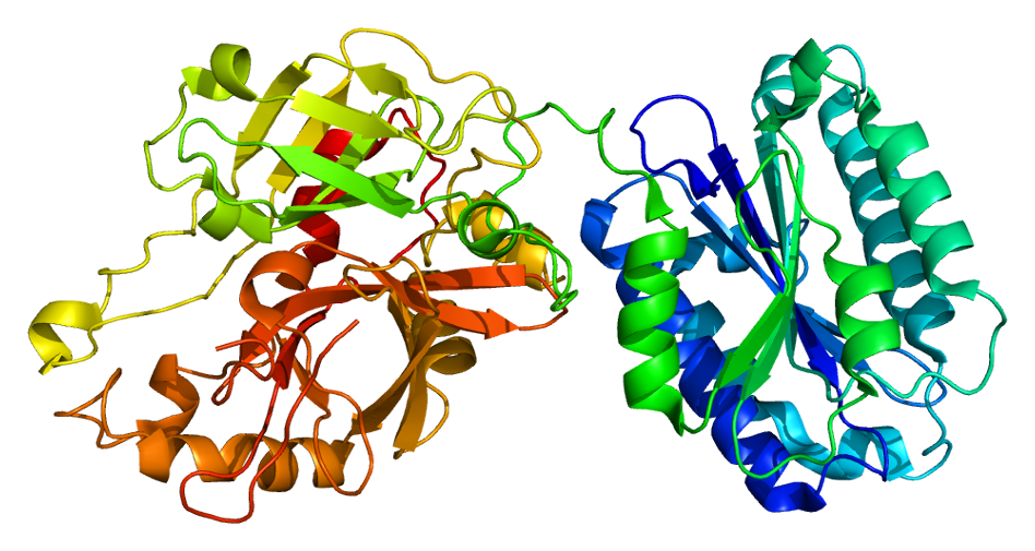 Structure of the C2 protein. Based on PyMOL rendering of PDB 2i6q.